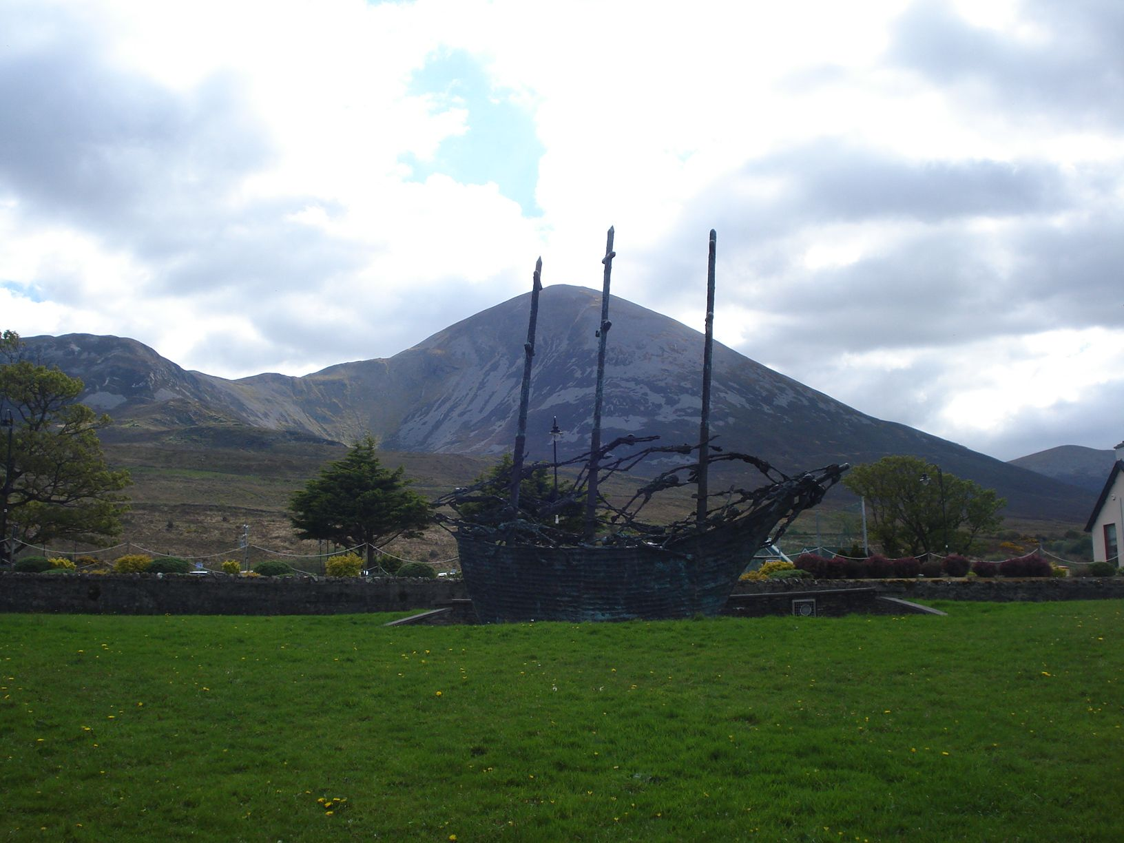 National Famine Monument with Croagh Patrick in the background. Murrish, County Mayo.